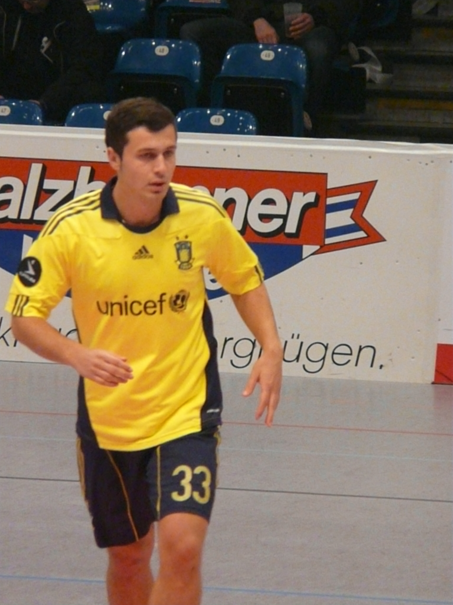 Beran Camili as Player from Bröndby IF